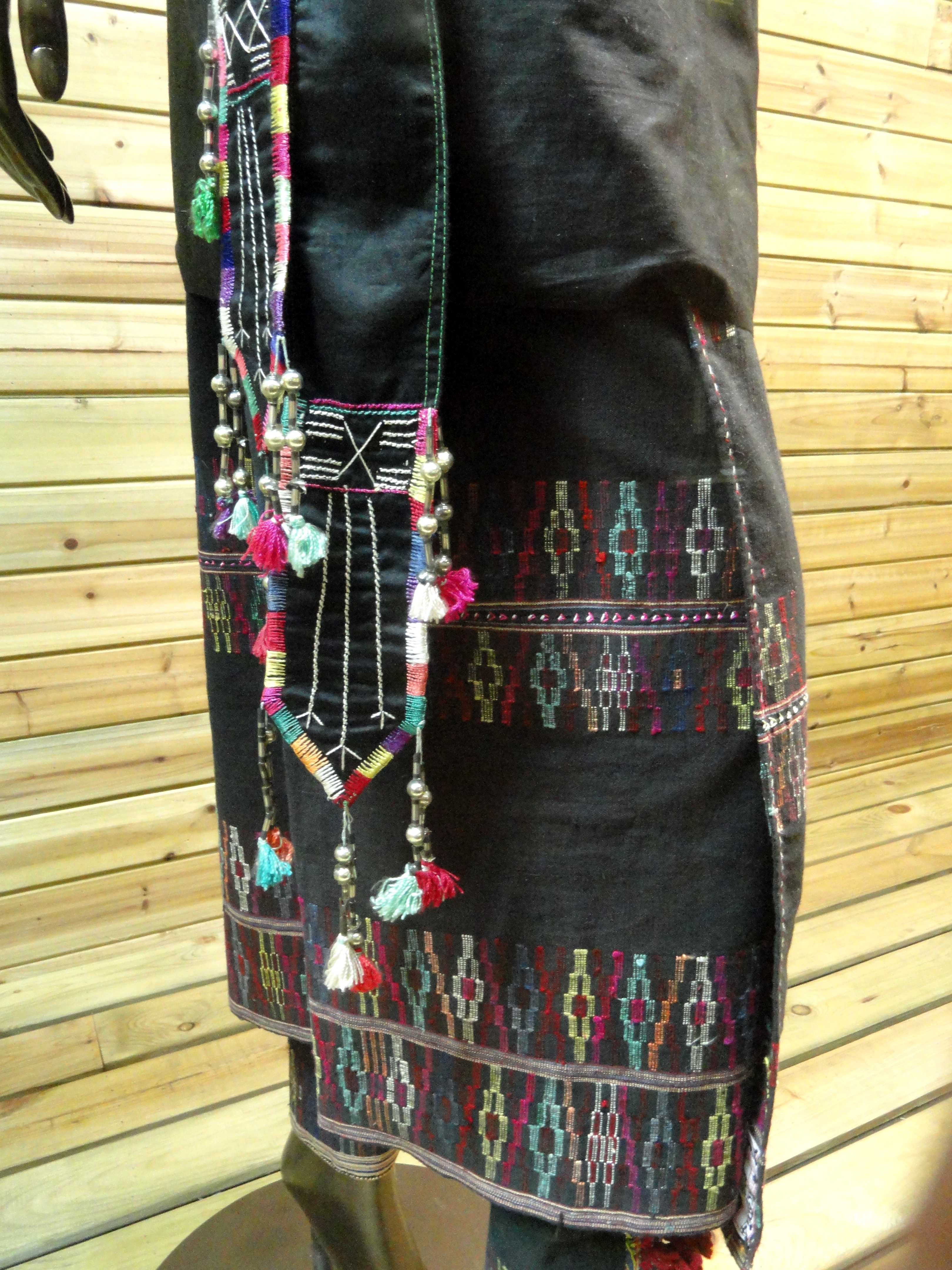 Achang woman brocade dress detail. Clothing exhibited in the Yunnan Nationalities Museum, Kunming, Yunnan, China.